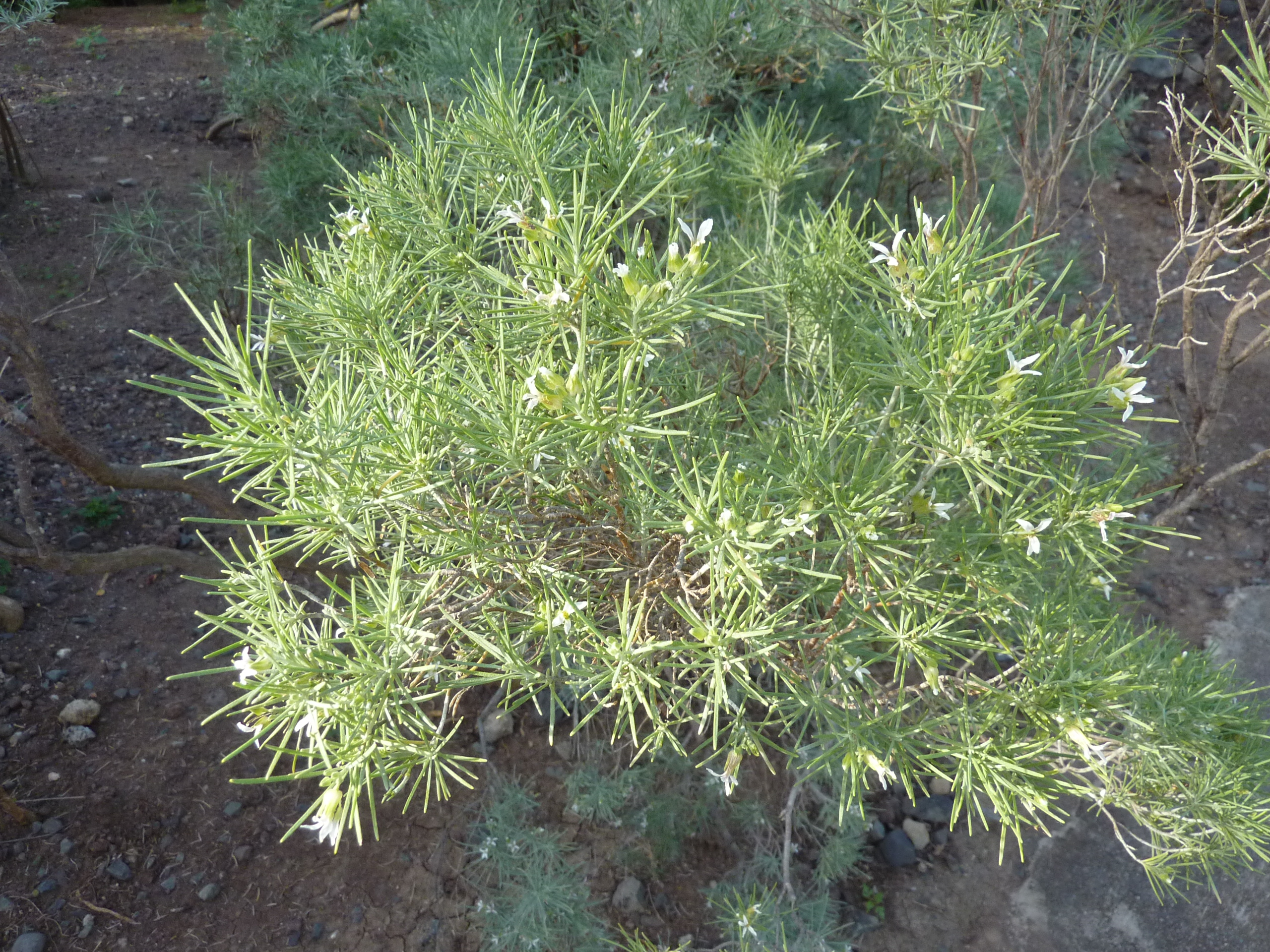 Parolinia ornata growing in the Jardín Botánico Canario Viera y Clavijo.